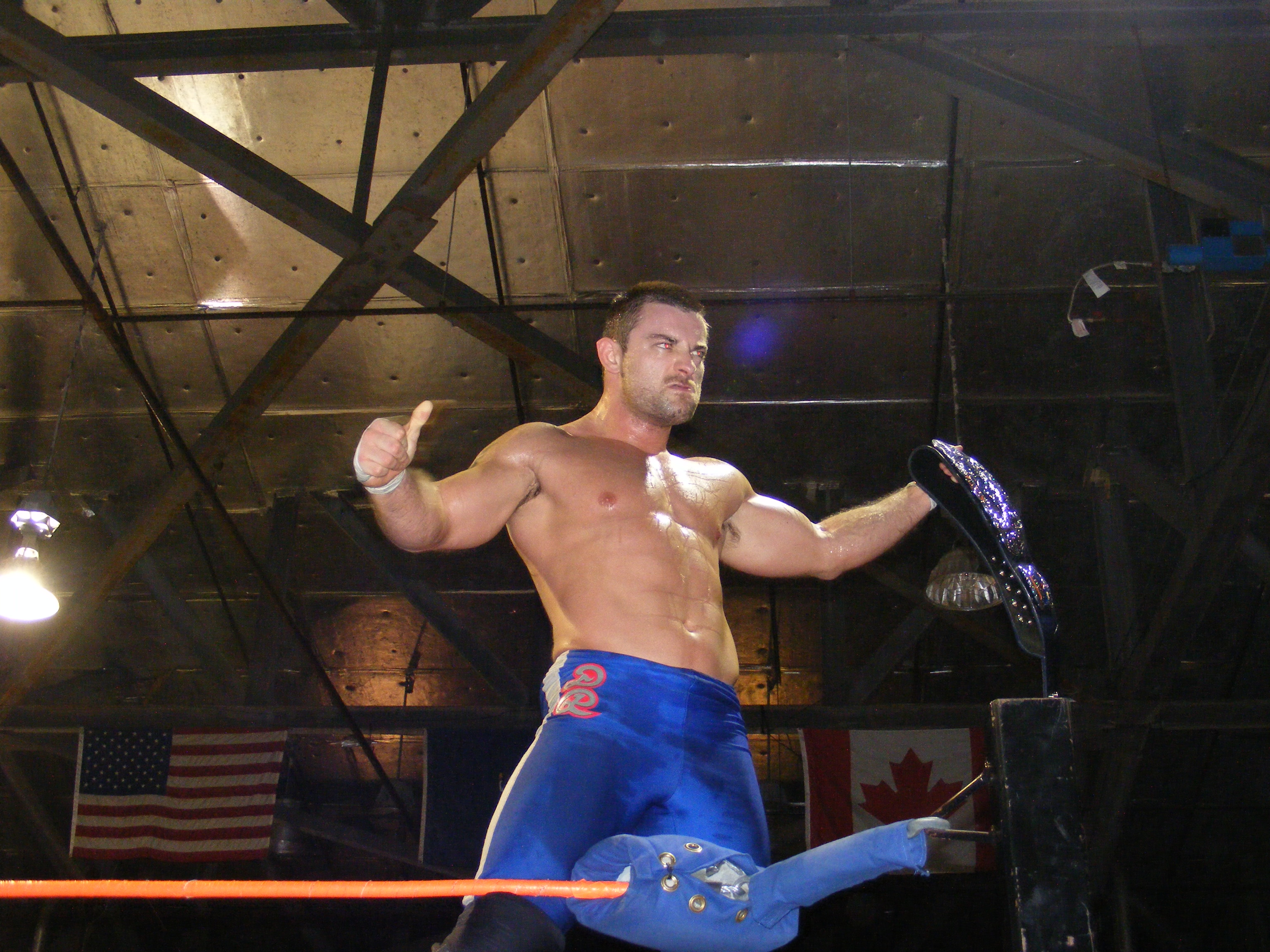 Professional wrestler Davey Richards as the 2CW Tag Team Champion in April 2010.